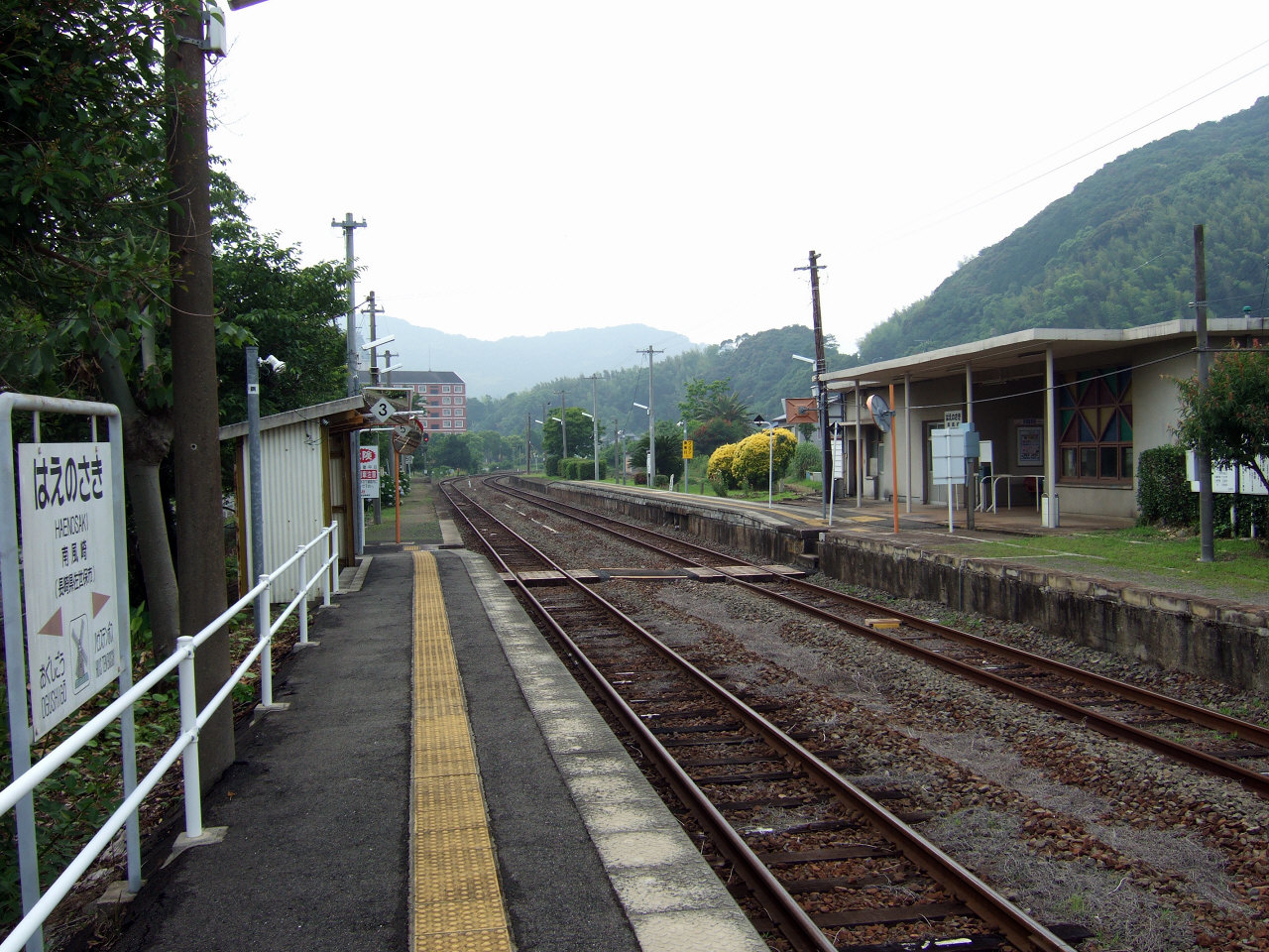 Platforms of Haenosaki Station on the JR Kyushu Omura Line